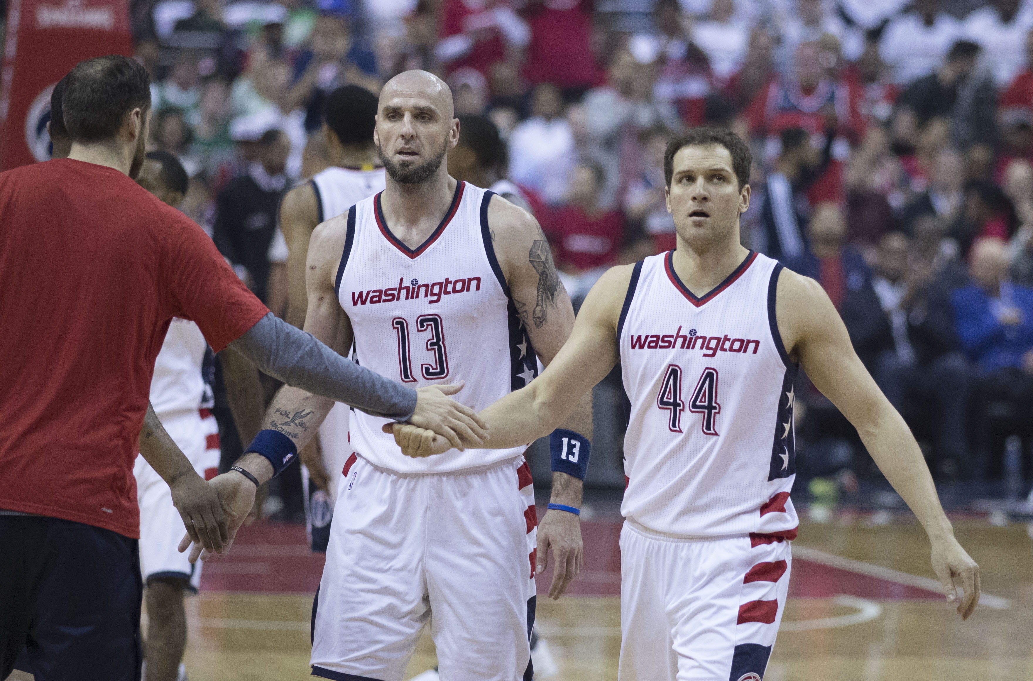 Celtics at Wizards Playoffs 5/7/17